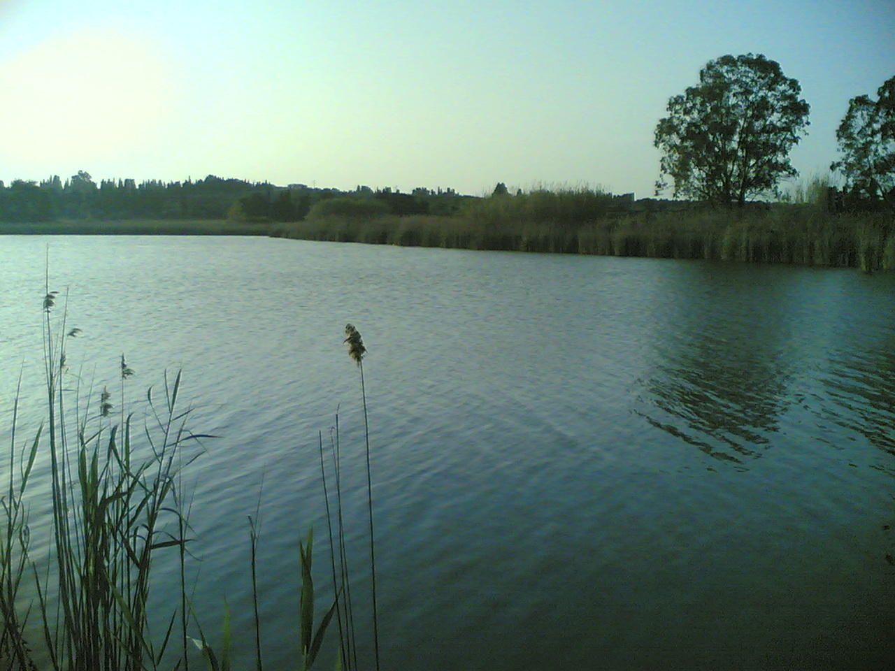 Alimini Grande Lake. Alimini Lakes belong to the district of Otranto, in the Province of Lecce - Apulia (Italy)